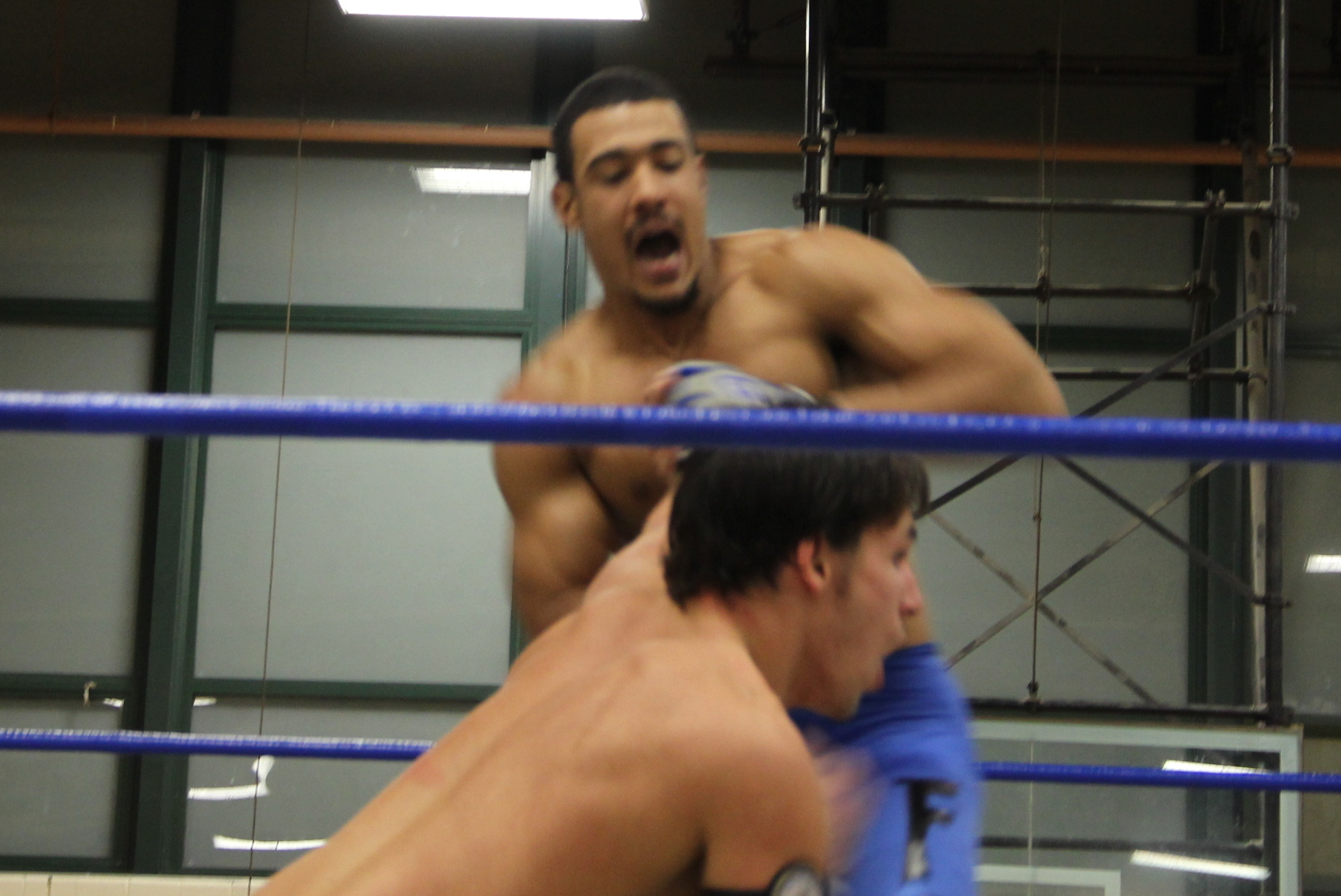 Professional wrestlers AR Fox and Chuck Taylor at a Wrestling is Art event.